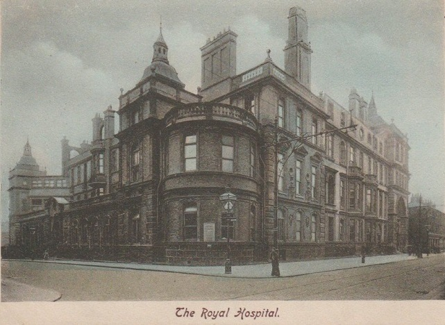 Old postcard of the Royal Hospital Sheffield